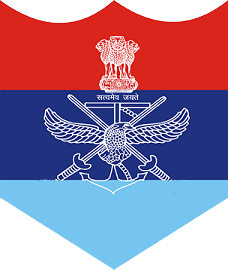 Indian armed forces logo